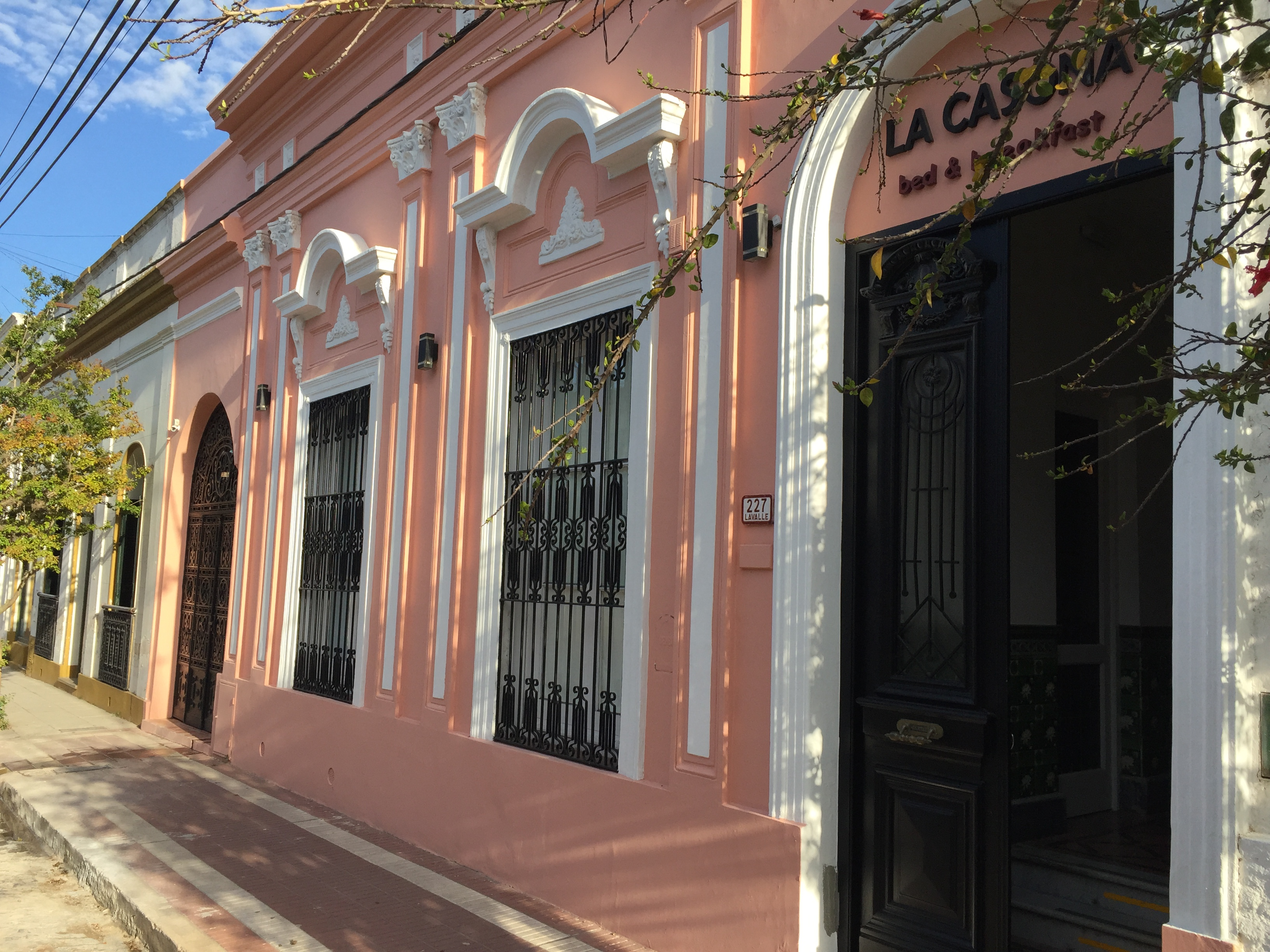 Casa de Raul Alfonsin y su familiar desde el año 1957